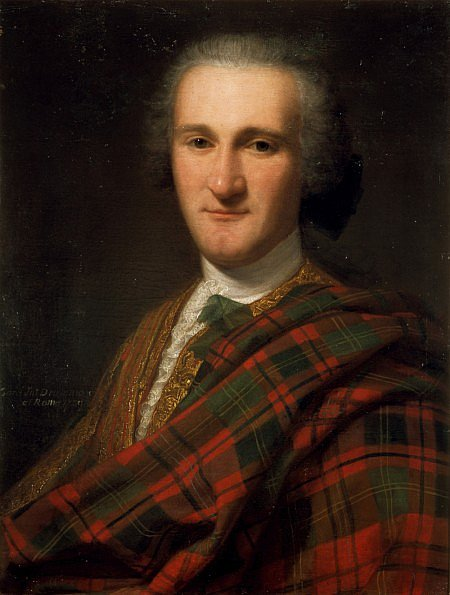 Portrait of John Drummond, 4th Duke of Perth by Domenico Duprà.